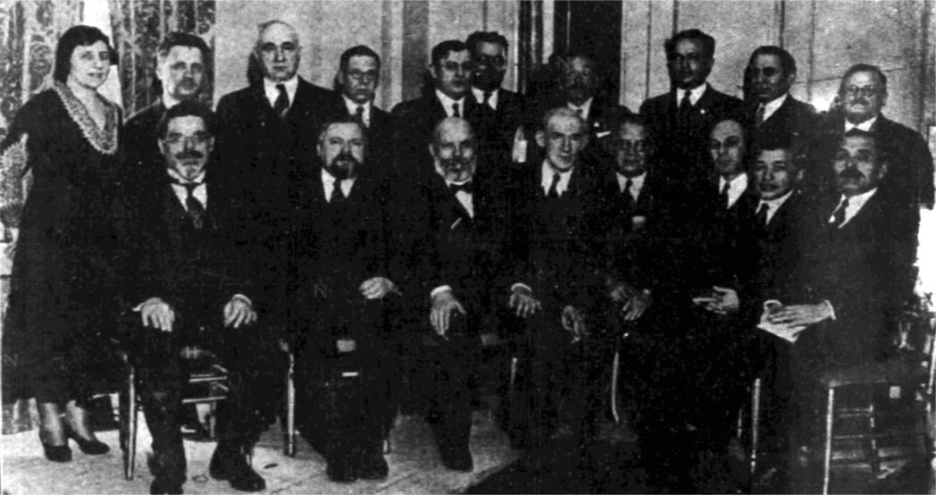 Photo of Ida Silverman at the Jewish National Fund Conference held in Washington DC in 1931.